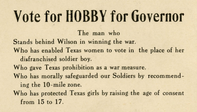 Card spells out some of the reasons to vote in favor of Wliiam P. Hobby for Governor-1918.